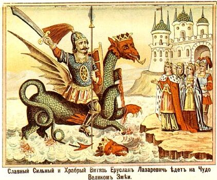 Eruslan Lazarevich. Lubok